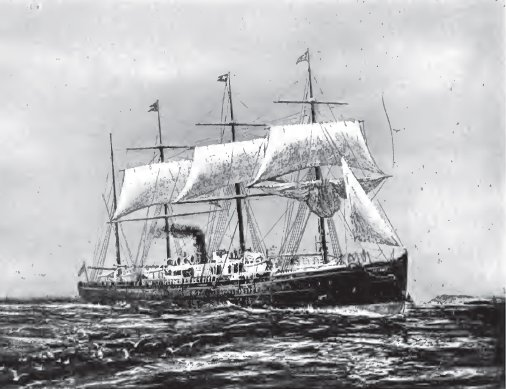 RMS Oceanic (1870). (Photo of a original painting by W. I. Wyllie).